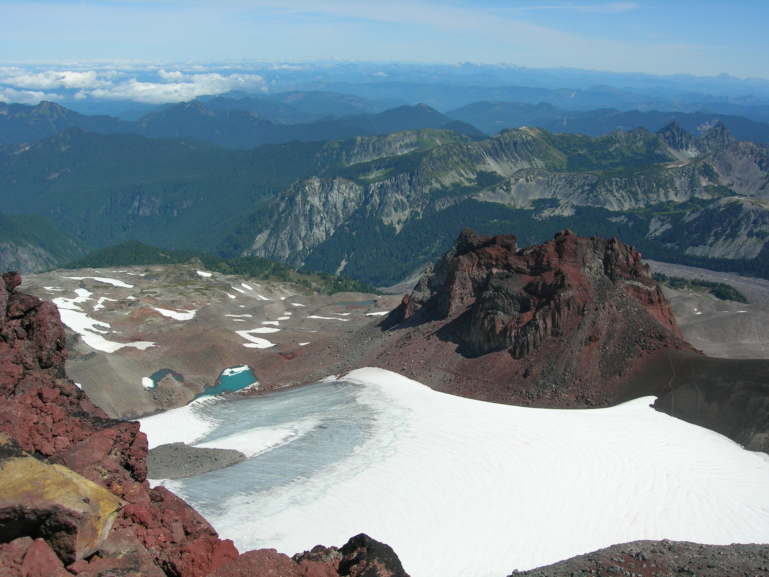 View of Flett Glacier on Mount Rainier from Observation Rock, with Echo Rock in the distance.